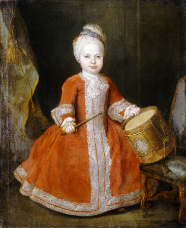 Portrait of Prince Francis Xavier of Saxony (1730-1806)